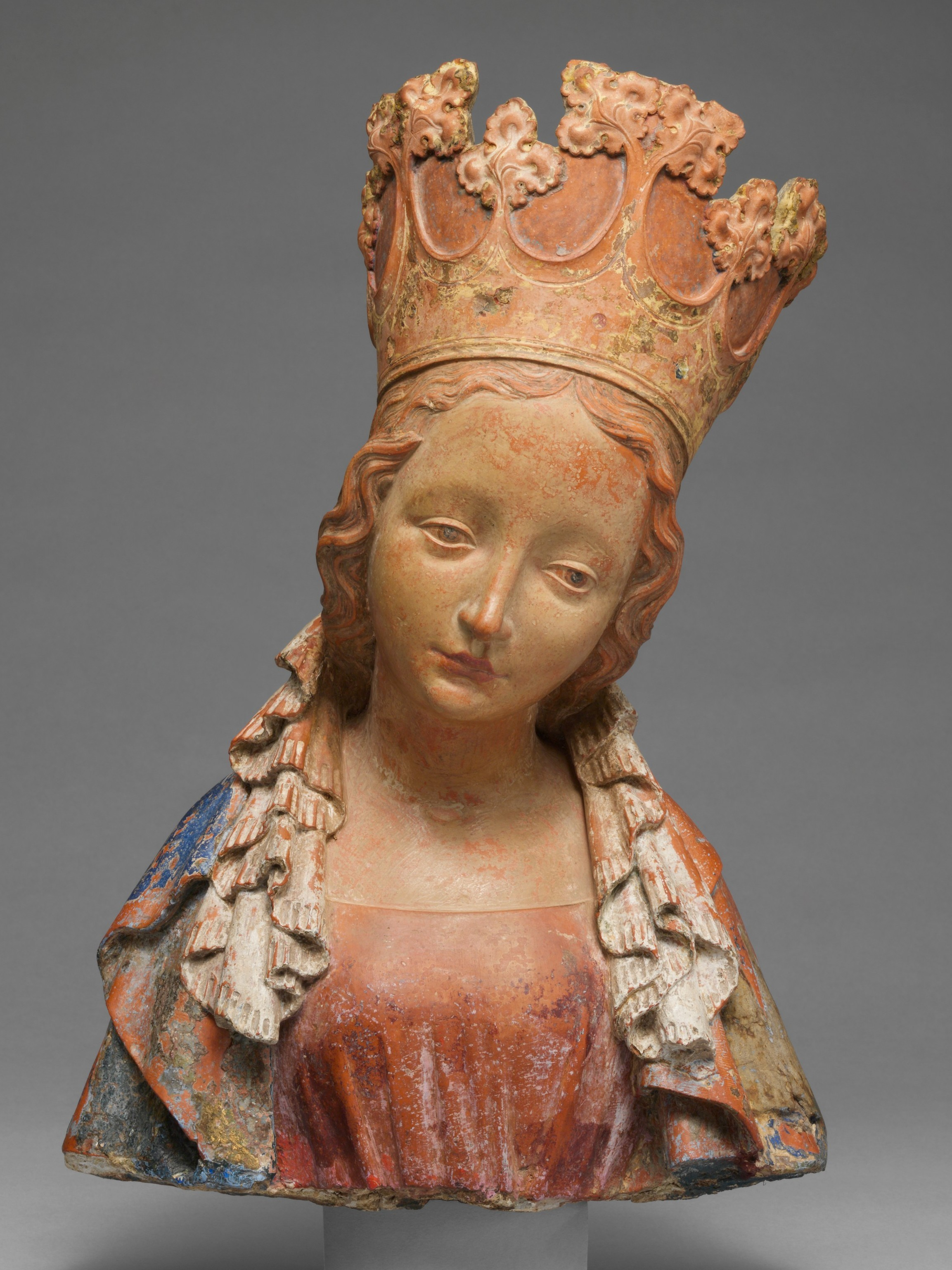 Bohemian; Bust; Sculpture-Ceramics